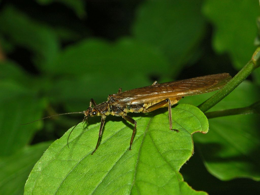 Dinocras ferreri in Val Noci, Genova, Italy